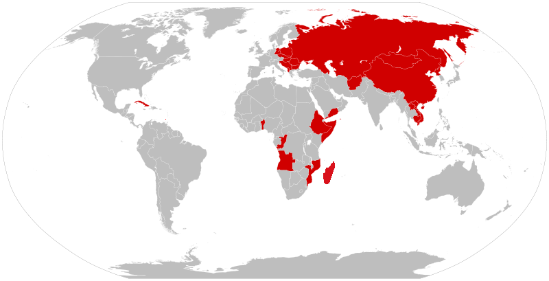 An anachronous map of countries (using present-day borders) that have been ruled by a one-party Marxist-Leninist state at some point in their history. By the time of the 1979-1983 Communist Grenada, all the colored nations above were simultaneously Communist-controlled.